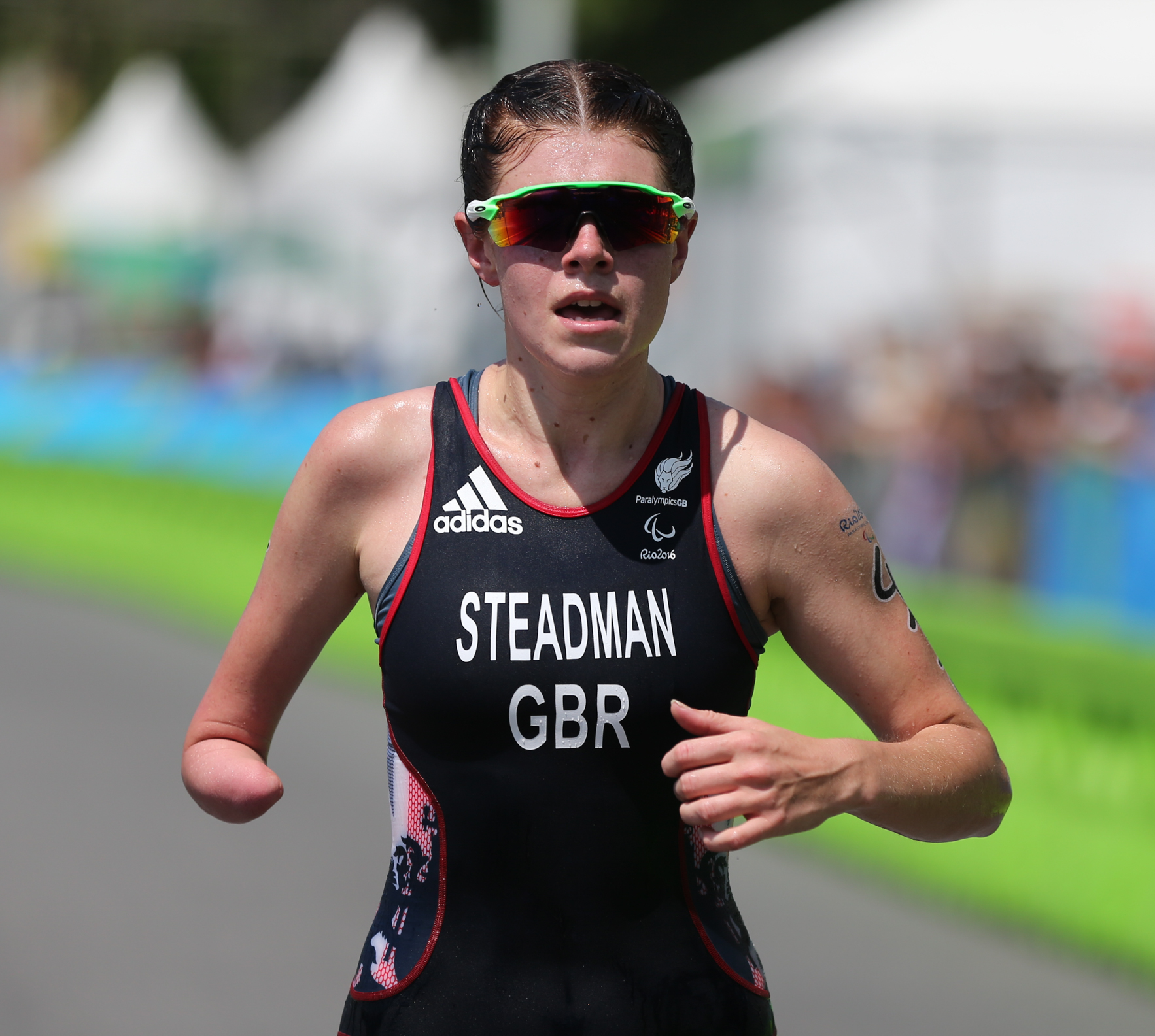 Lauren Steadman in Rio de Janeiro - Running in the women's triathlon PT4, PT2 & PT5, em Copacabana. She competed in category PT5. (Tânia Rêgo/Agência Brasil)